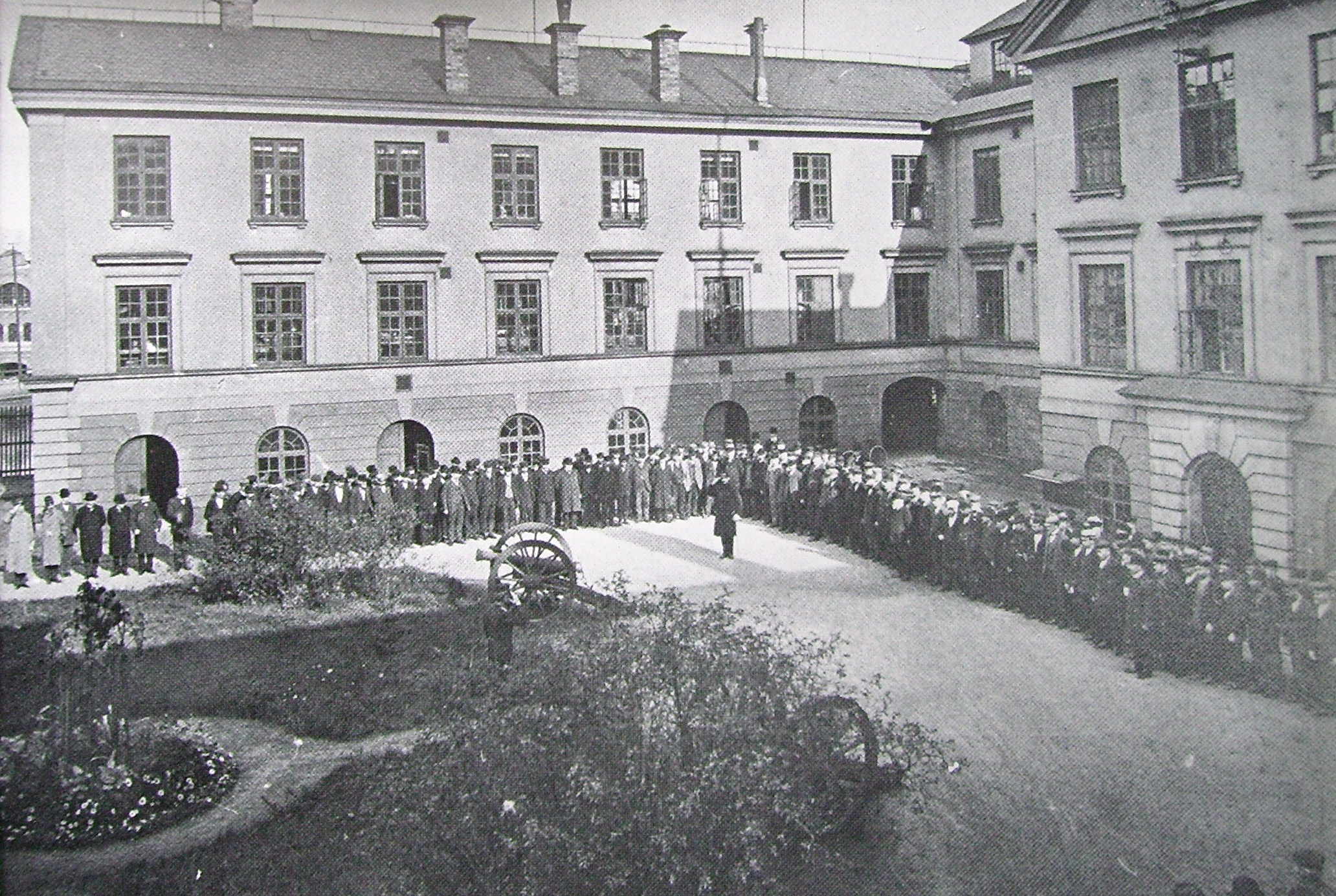 Picture of Gevärsfaktori (gun factory) in Eskilstuna (1911).